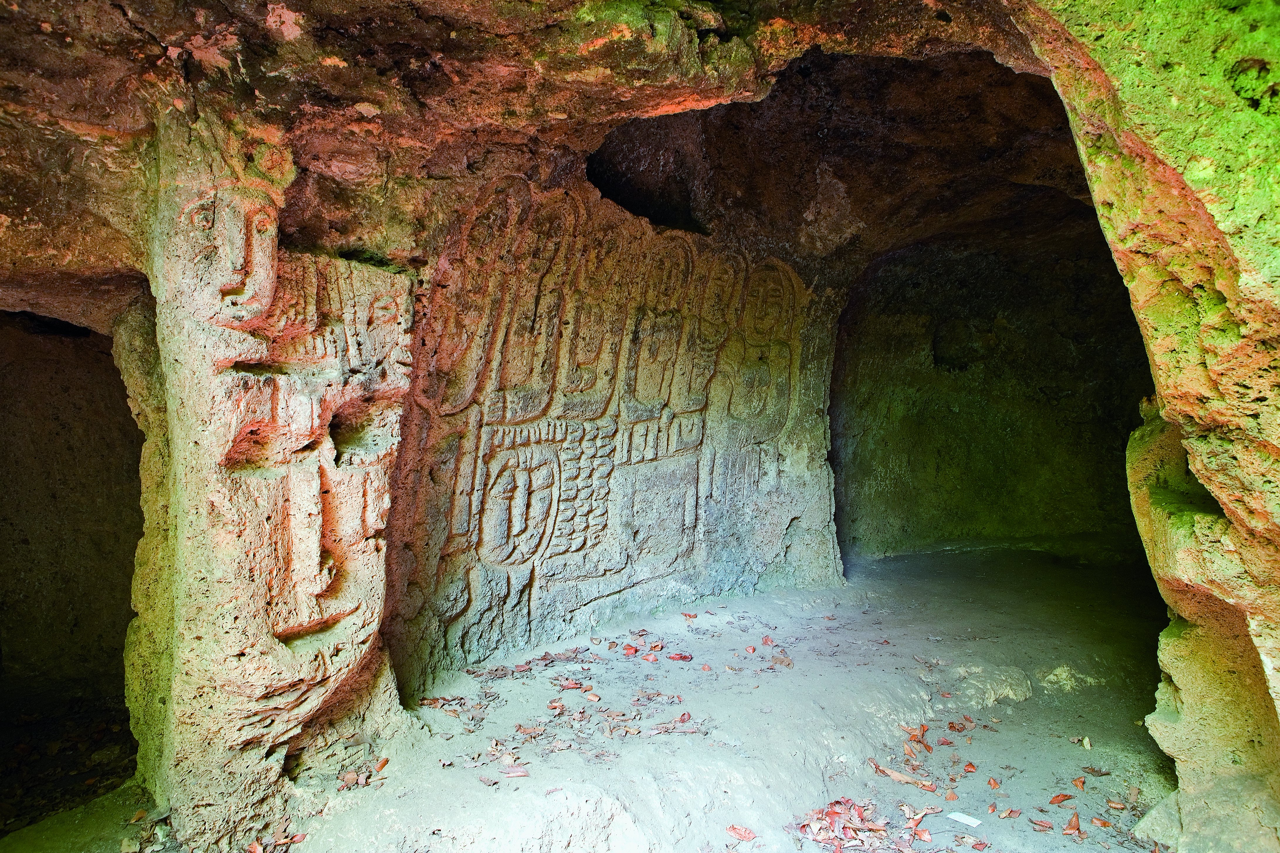 Anapat Grotto